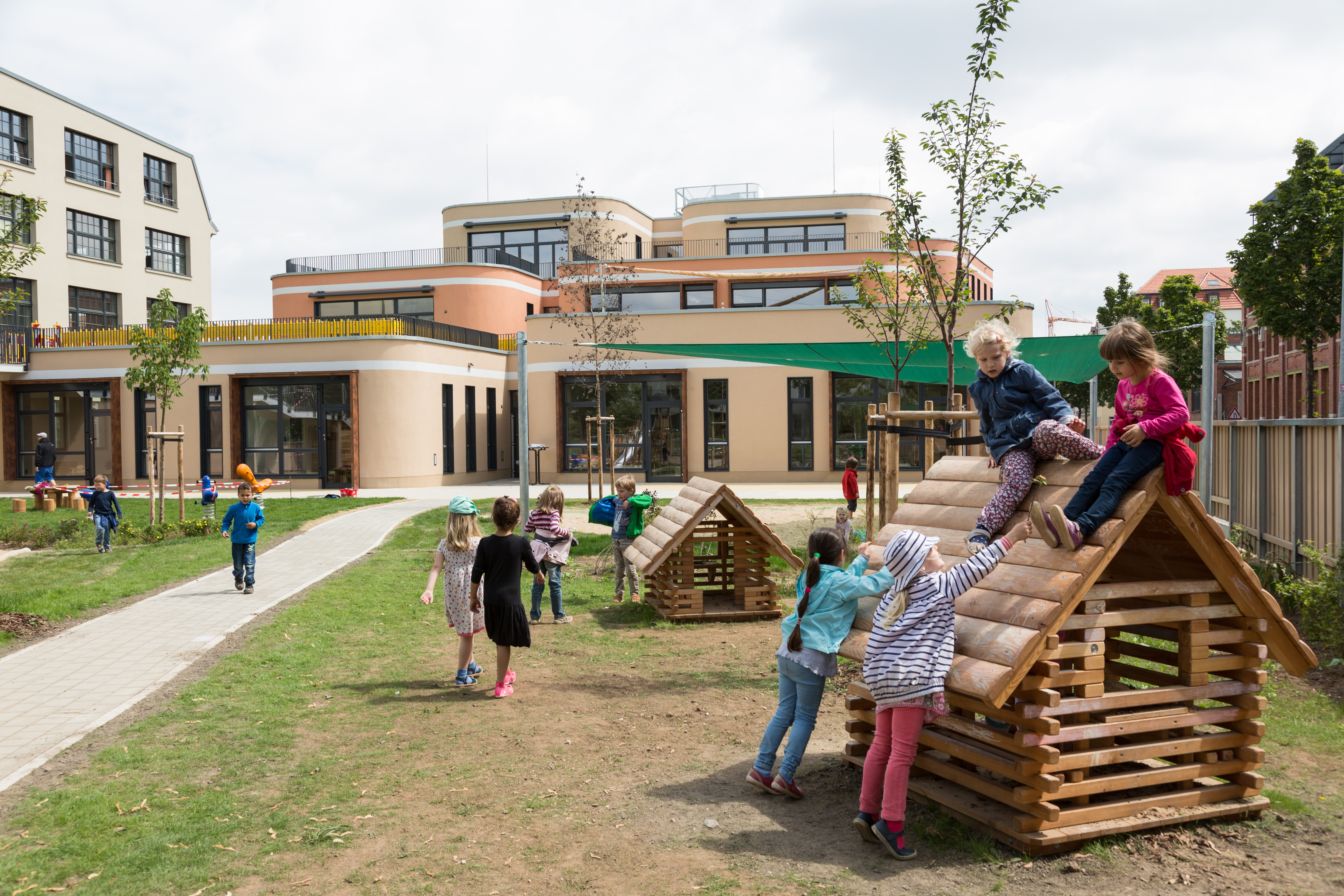 Karl-Heine-Str. 95, Leipzig, LIS Early Childhood Centre/Photo: Peter Usbeck